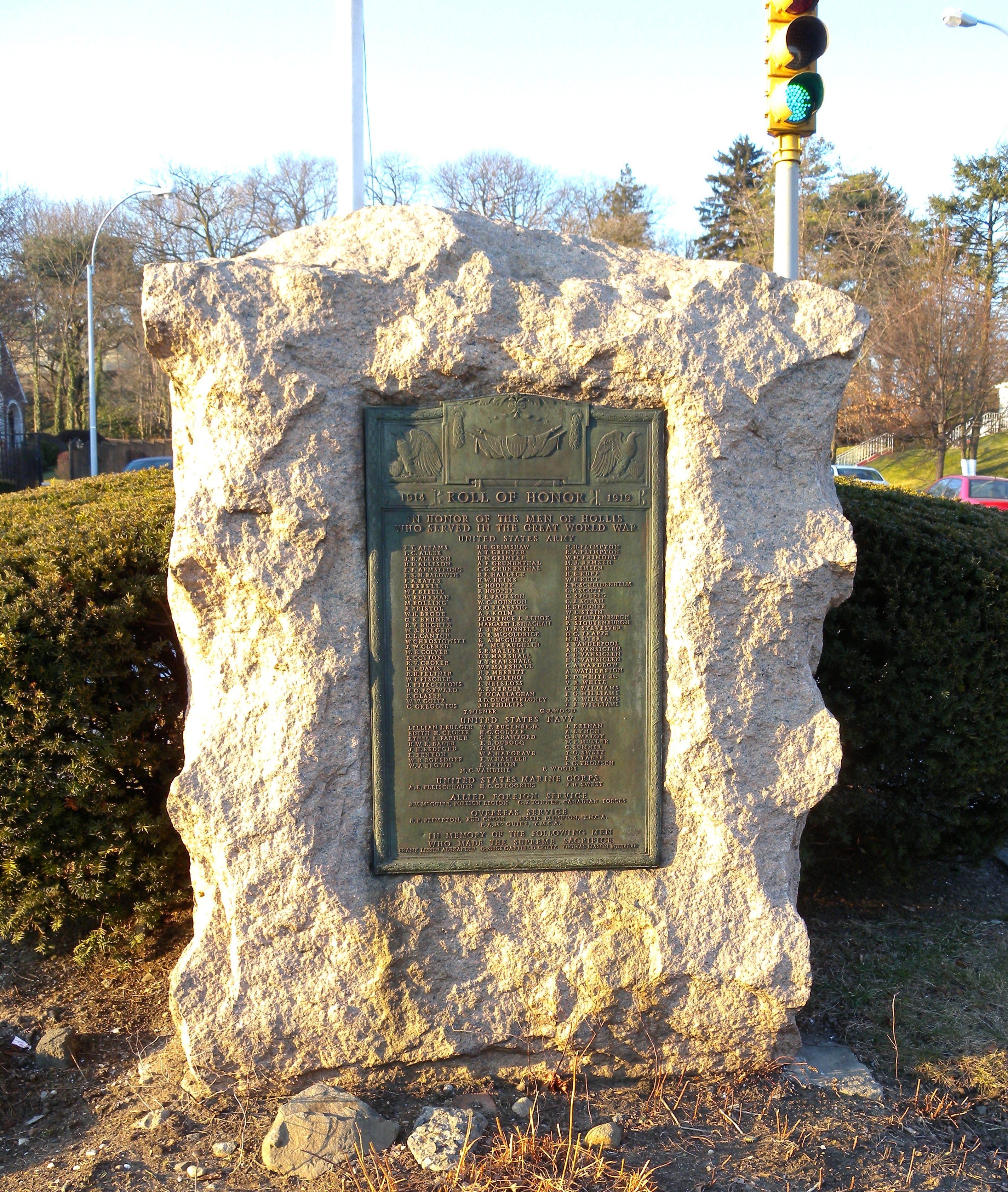 Looking northwest from Hillside Avenue at war memorial in the median of Hollis Park Boulevard, now 193rd Street, in Hollis Hills, Queens on a sunny late afternoon.